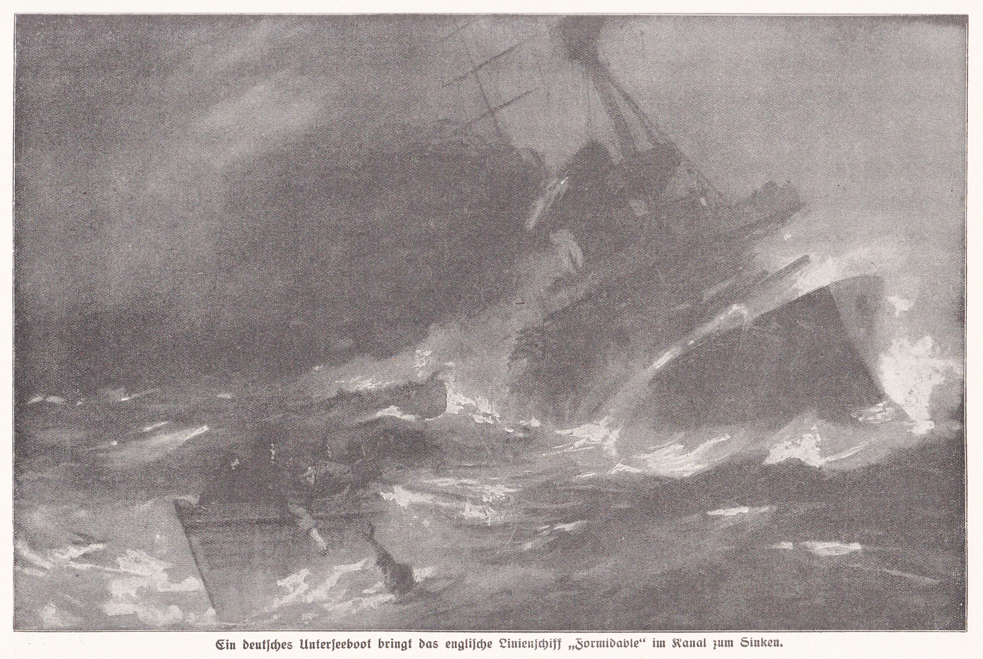 Der Krieg 1914-19 in Wort und Bild, published 1919